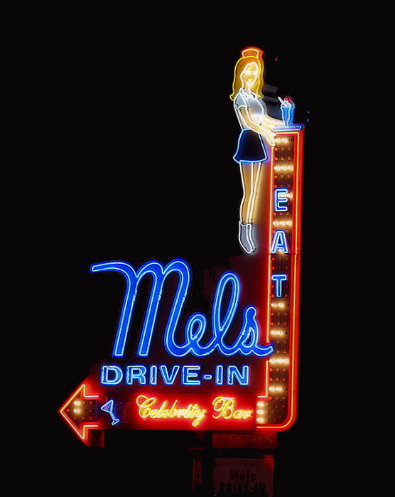 Sign for Mel's Drive-In, Max Factor building, Los Angeles, California